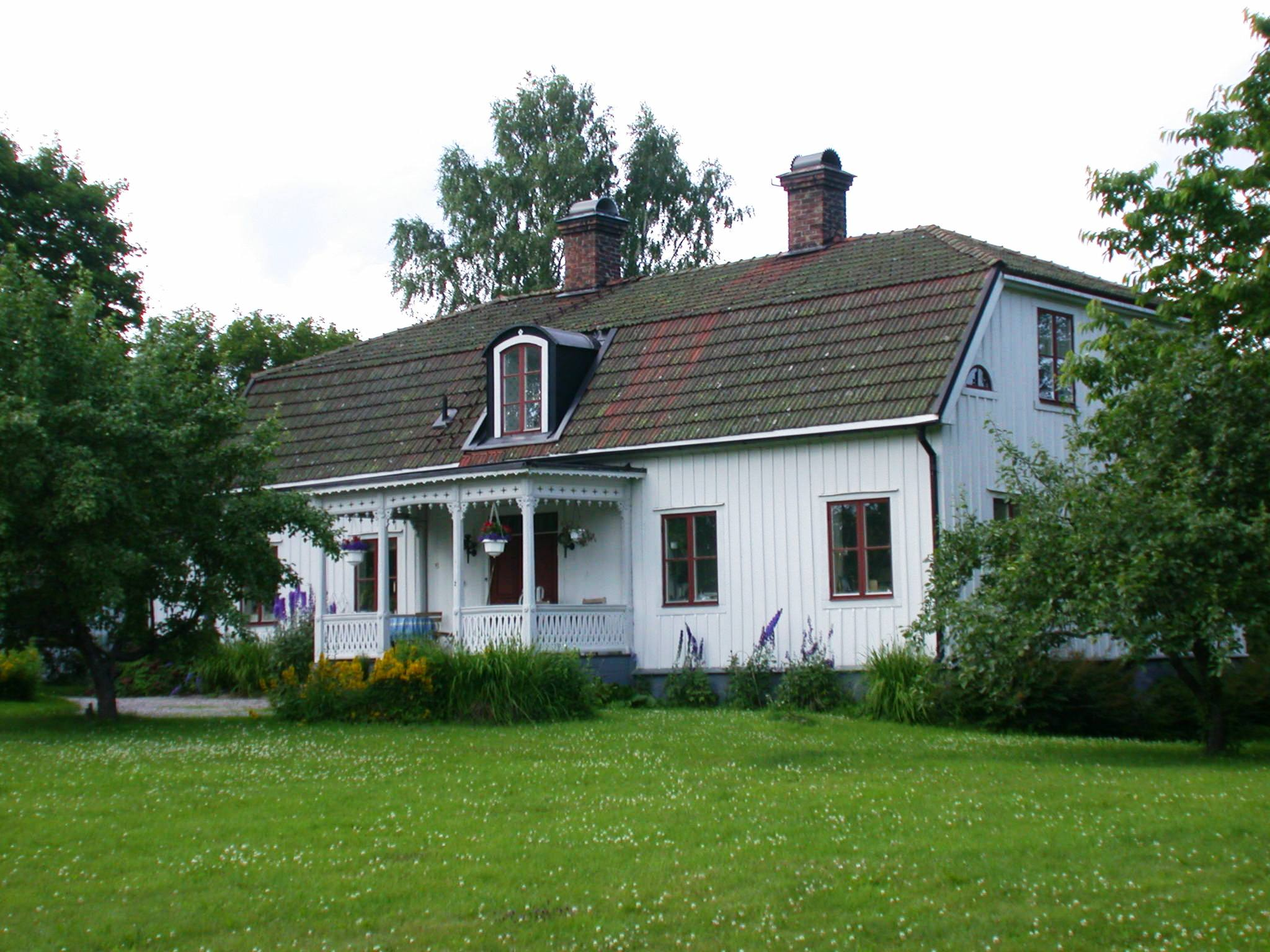 Inspector's building, Mackmyra bruk and destillery